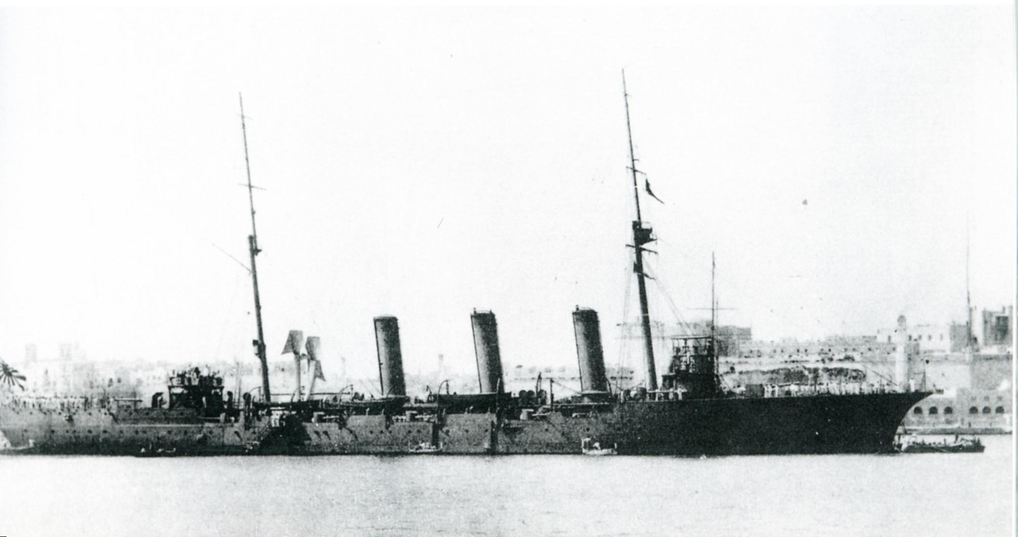 Japanese cruiser Tone in 1911